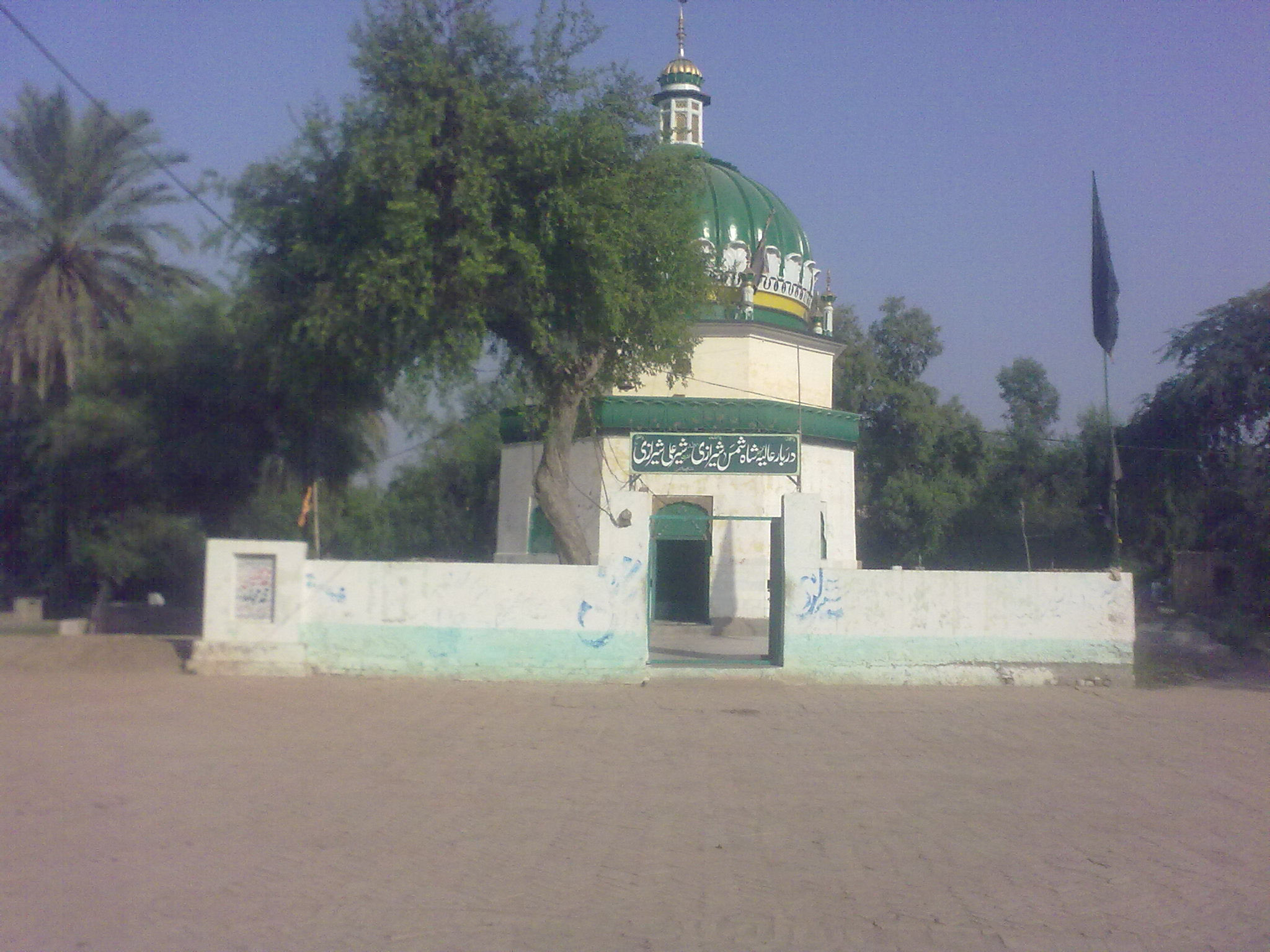 Mausoleum of Shah Shams Sherazi, Shah Pur, Sargodha, Pakistan